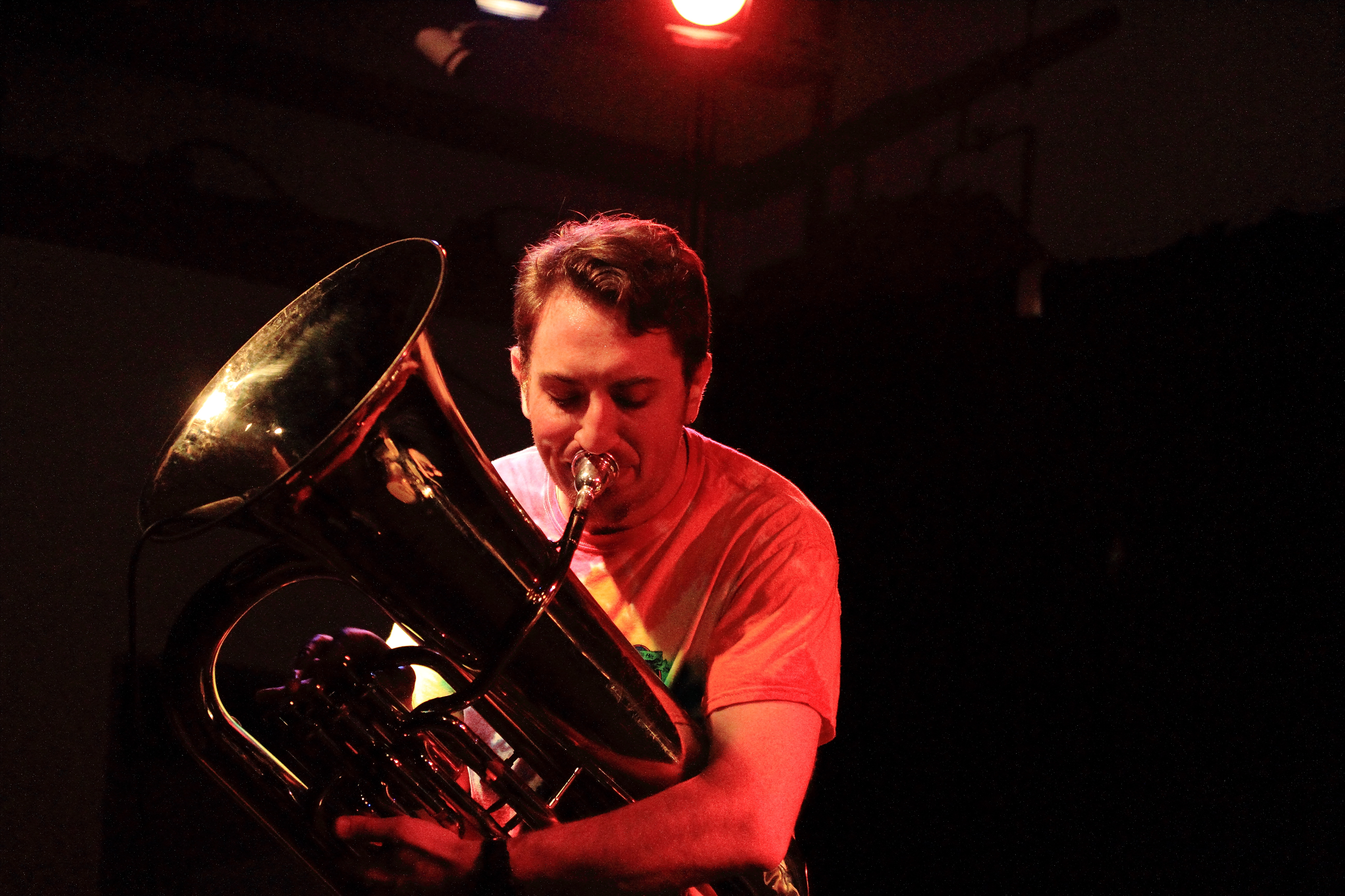 Dan Peck & The Gate at Club W71, Weikersheim.